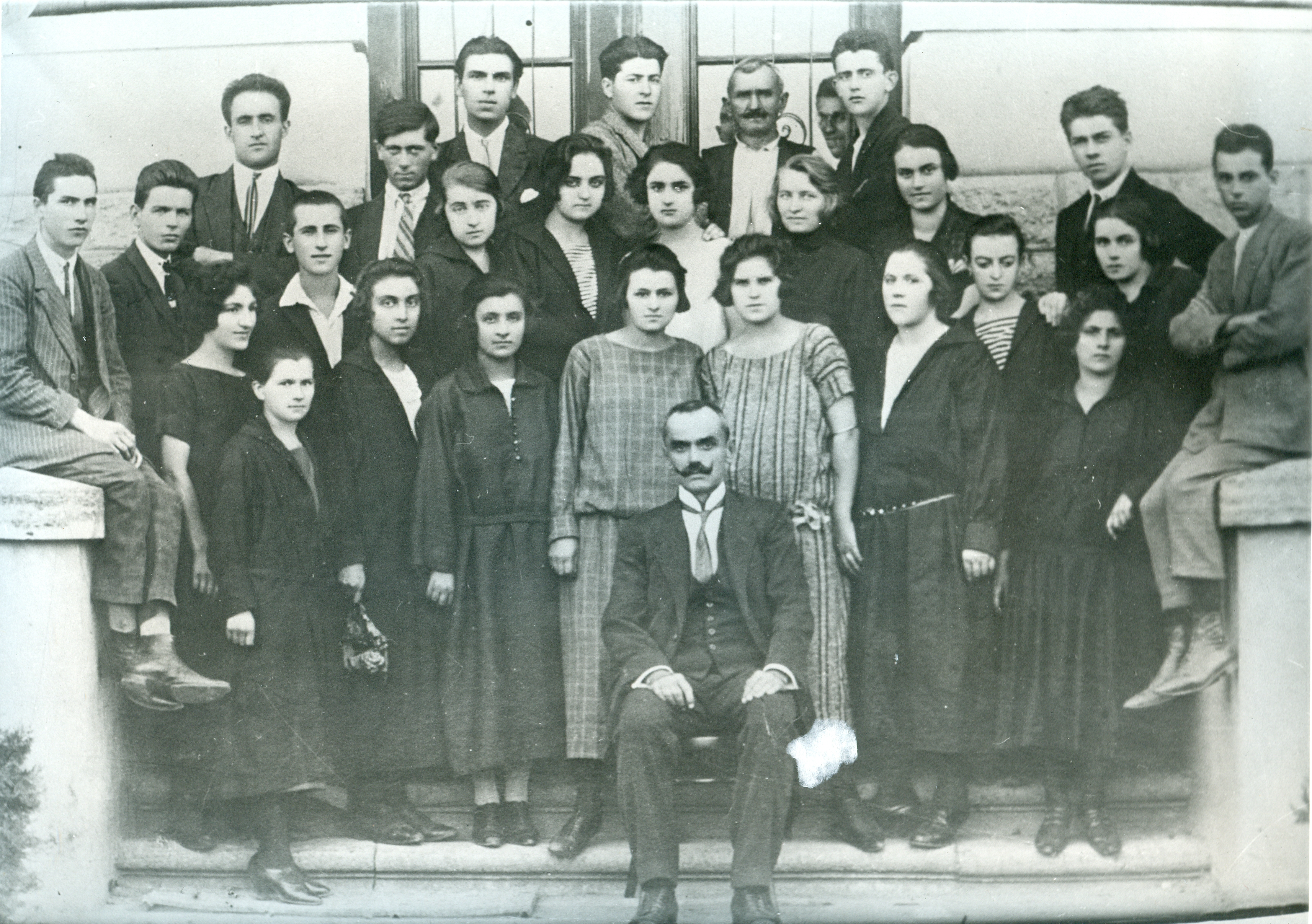 Graduates of Teachers school in Negotin 1925. Srpski (latinica): Maturanti Učiteljske škole u Negotinu 1925.